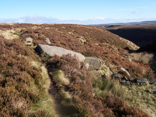 Ponden Kirk 'Penistone Cragg' A rock at the top of Ponden Kirk, this is believed to be part of the inspiration for Emily Bronte's novel 'Wuthering Heights'. It is believed to be 'Penistone Cragg' in the story, the place where Cathy and Heathcliff go to be with each other alone.